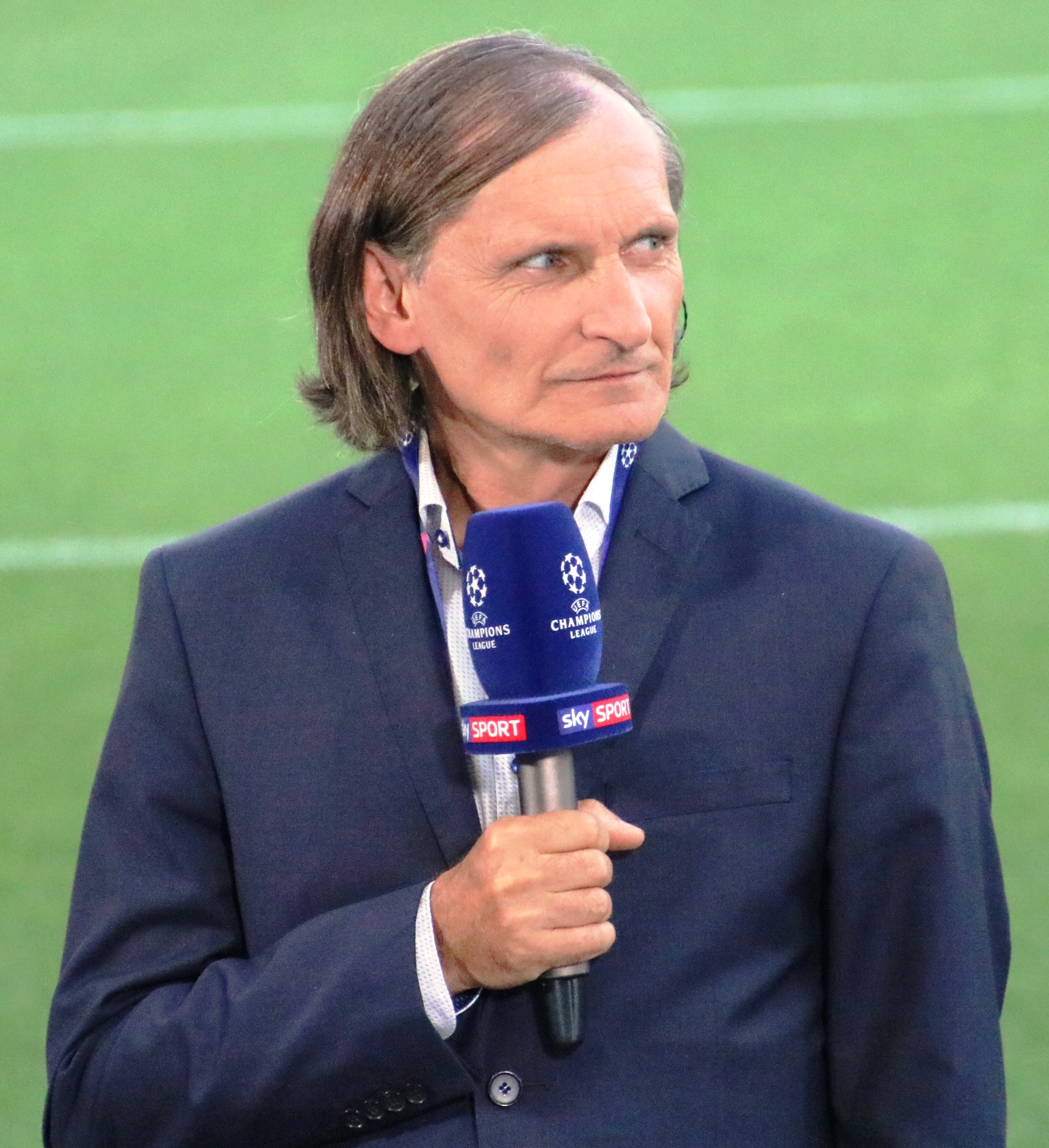 CL play off 2nd leg